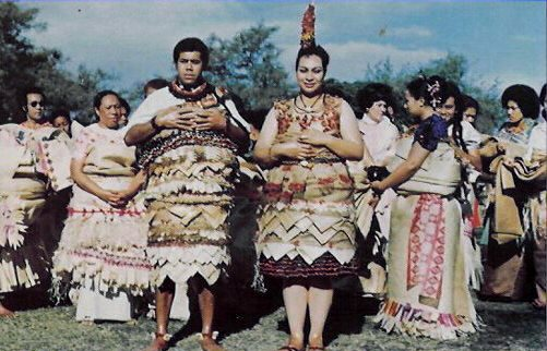 HRH Princess Pilolevu of Tonga and Lord Siosa'ia Ma'ulupekotofa Tuita's wedding on the 20th July 1976